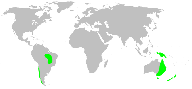 Micropholcommatidae habitat distribution, drawn after Platnick: World Spider Catalog 7.0. This is not a precise rendering of the distribution! If you have better information, please replace this map, or send me the info, and i will redraw it.